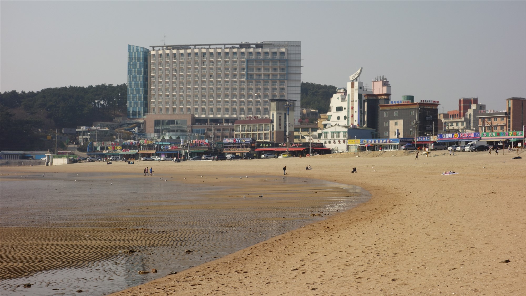 Eulwangri Beach, near Incheon International Airport, Korea